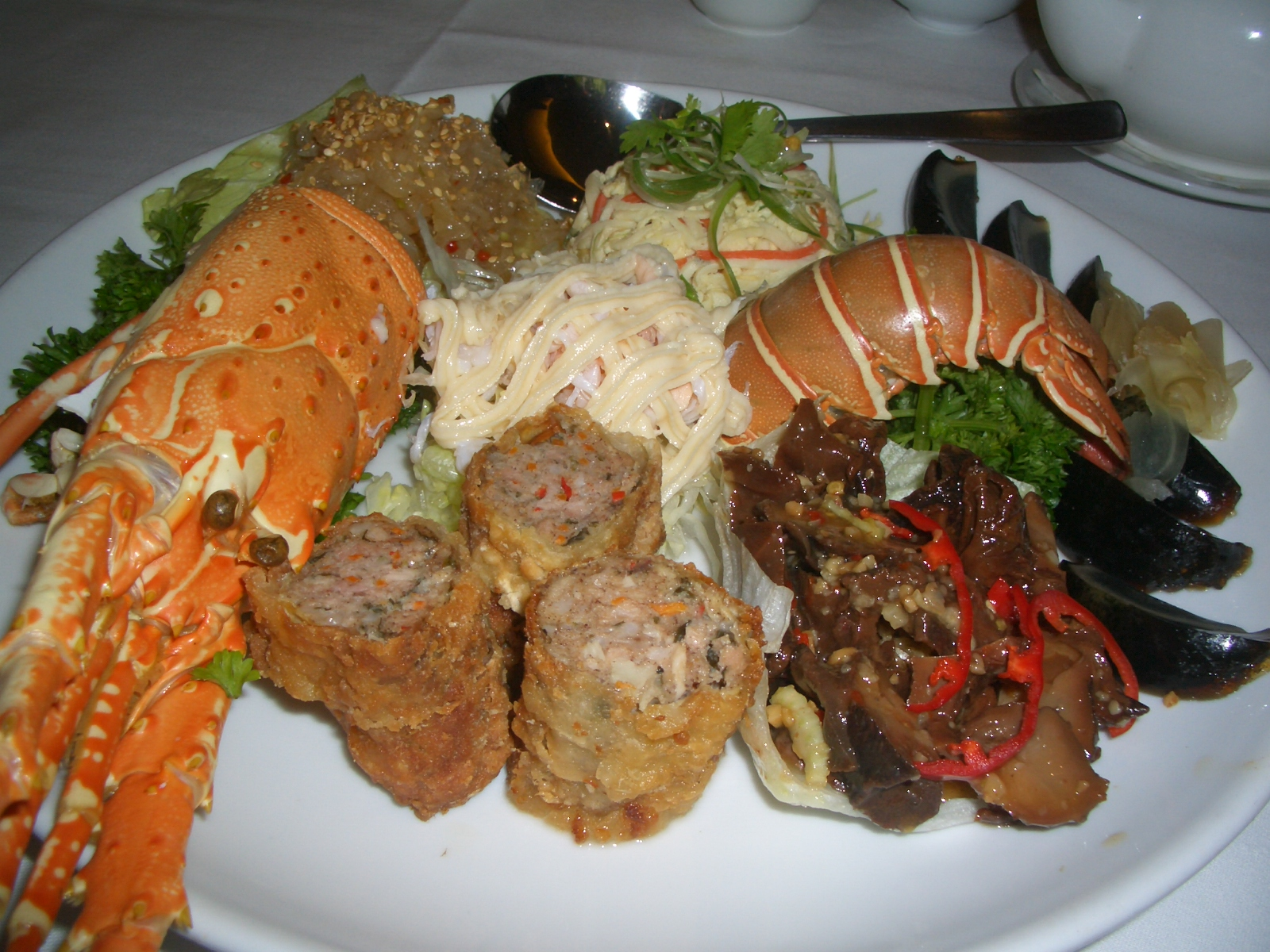 Lobster platter